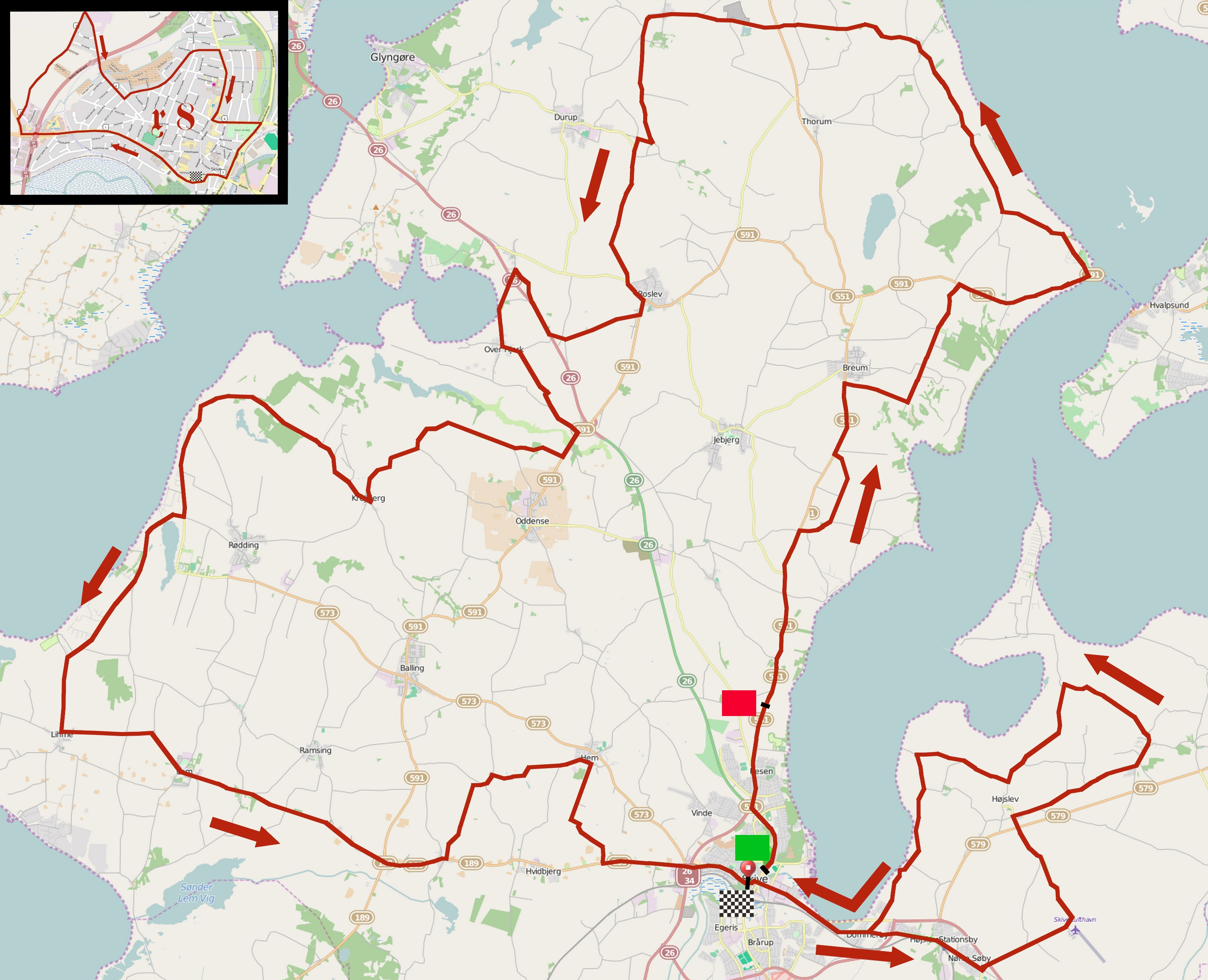 Parcours de Skive-Løbet 2015. This map may be incomplete, and may contain errors. Don't rely solely on it for navigation.